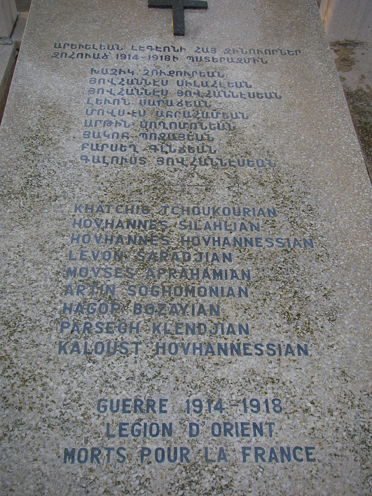 The tombstone of the Armenian Legionnaires in Larnaca.